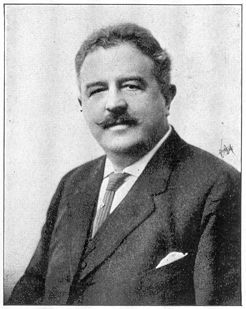 Description: Victor Herbert, c. 1913 Size: 246 × 309 pixels Source: What We Hear in Music, Anne S. Faulkner, Victor Talking Machine Co., 1913.